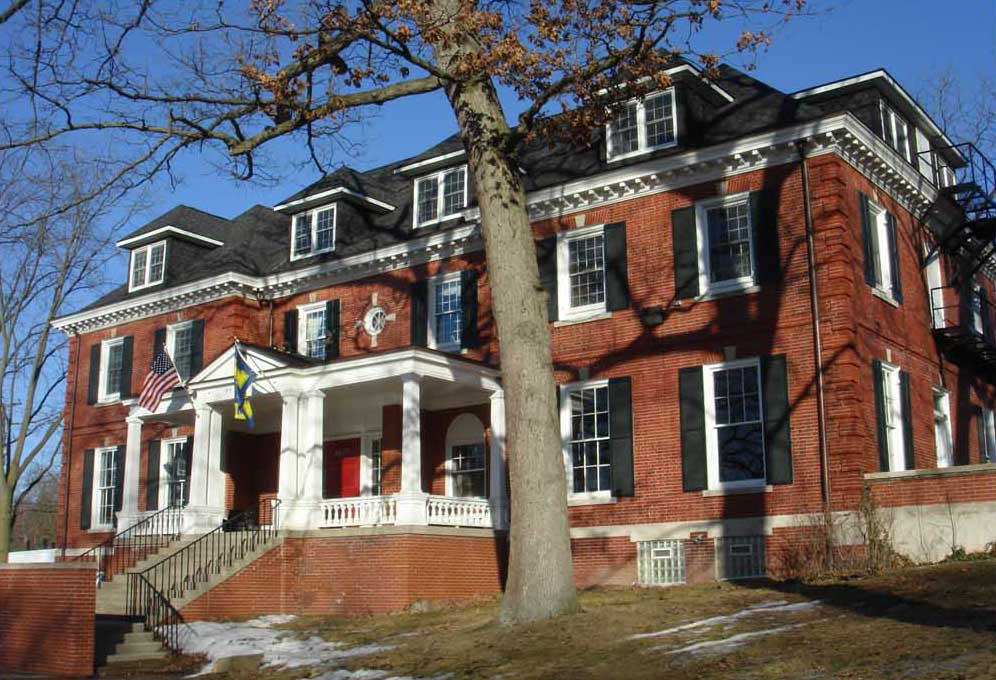 Michigan Alpha Chapter House of Phi Delta Theta designed by renown architect Albert Kahn